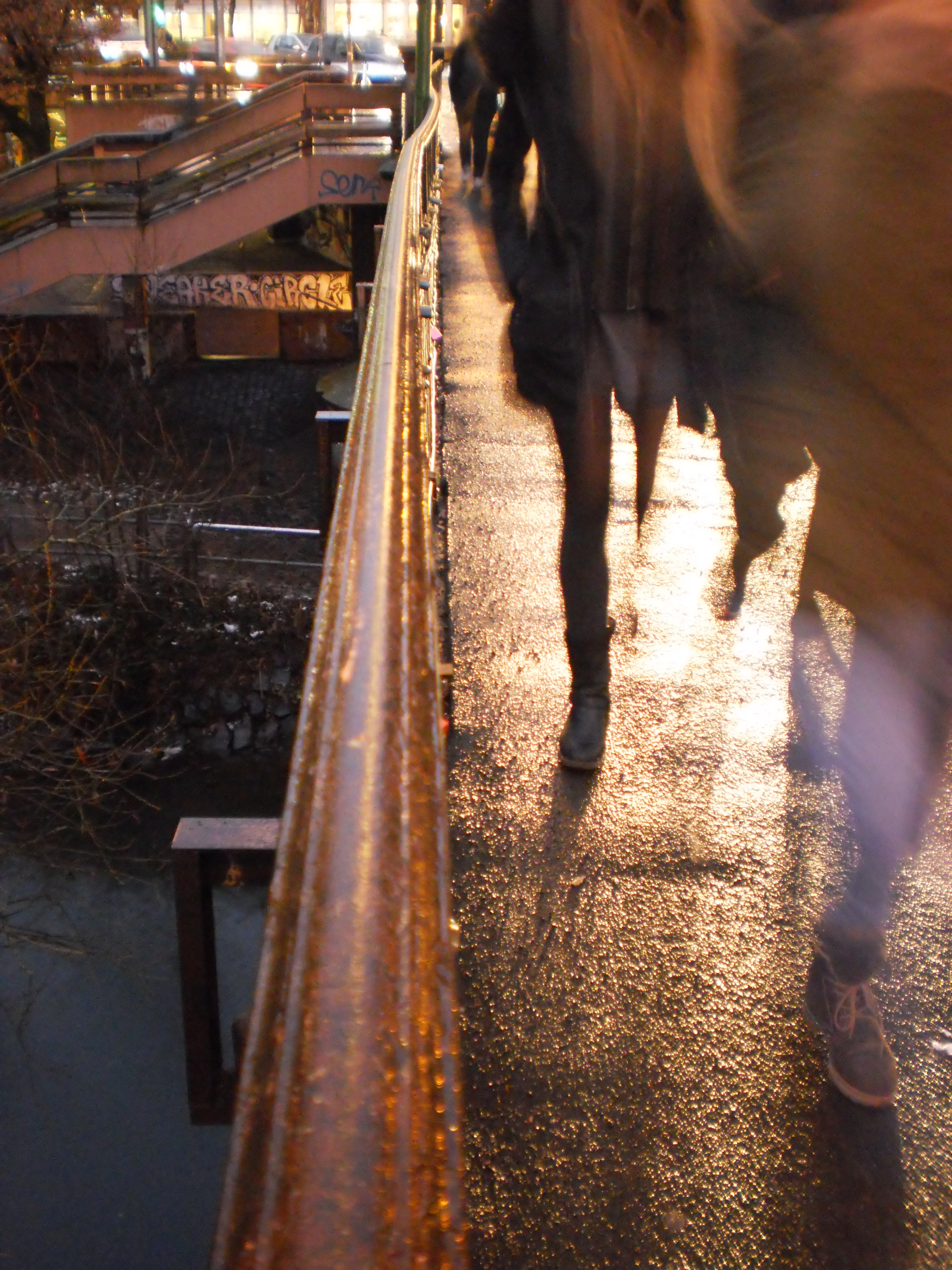 Pedestrians walking on sidewalk of bridge named 'Weidenhäuser Brücke', late afternoon in January 2017 with rainy weather conditions and wet iron handrail. At that time in year 2017, before construction works in 2018, the handrail of the bridge railing had been not staight along the sidewalk, with some bends ... In background on the other side of river Lahn in Marburg is the crossing and stairs down to square Rudolphsplatz at the river bank, with automobile lights near old university buildings. ...Photo taken on 2017-01-11.